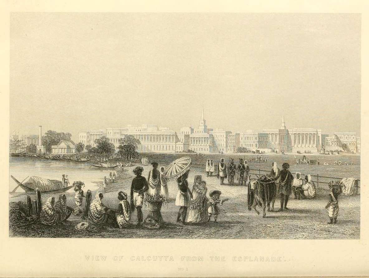 Calcutta from the Esplanade, from vol. 3 of 'The Indian empire' by Robert Montgomery Martin, c.1860; here are very large scans of these engravings